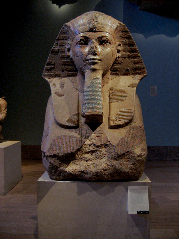 Head of a Sphinx of Hatshepsut, Eighteenth dynasty of Egypt, c. 1503-1482 B.C., found at Deir el-Bahri, Thebes. Red granite sculpture at the Metropolitan Museum of Art, New York City. This statue is one of six that were likely placed along the processional way into Hatshepsut's temple on the lower terrace. Only the head and shoulders of this statue were recovered. Patches of blue paint on the false beard are still visible, as are traces of yellow and blue on the nemes royal headdress.